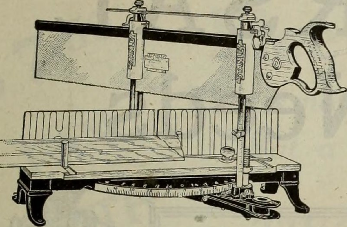 Stanley mitre box picture from an ad in "Hardware merchandising March-June 1917"